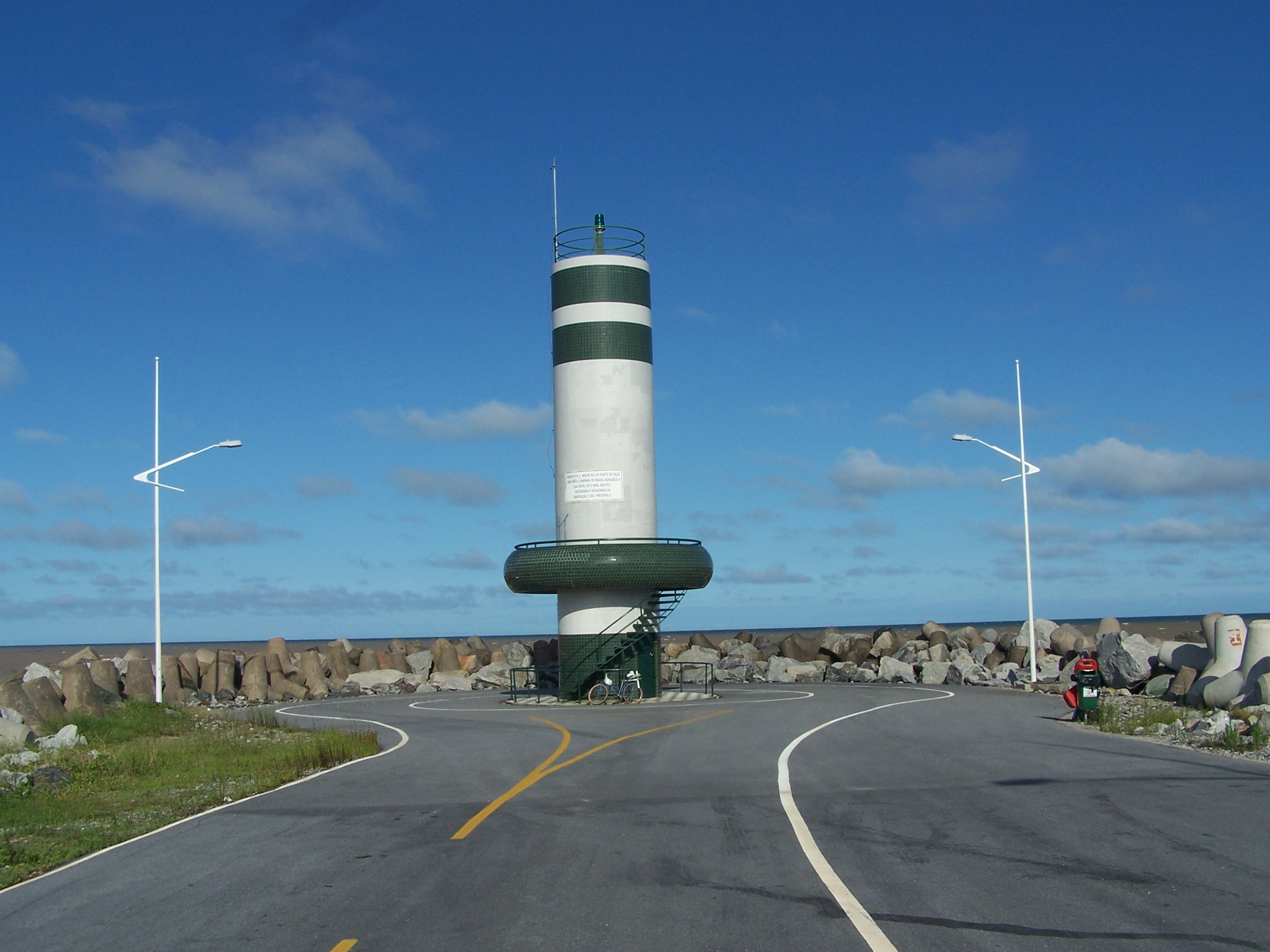 Itajaí Nr 2 Light, South Breakwater, Itajai, Santa Catarina, Brazil